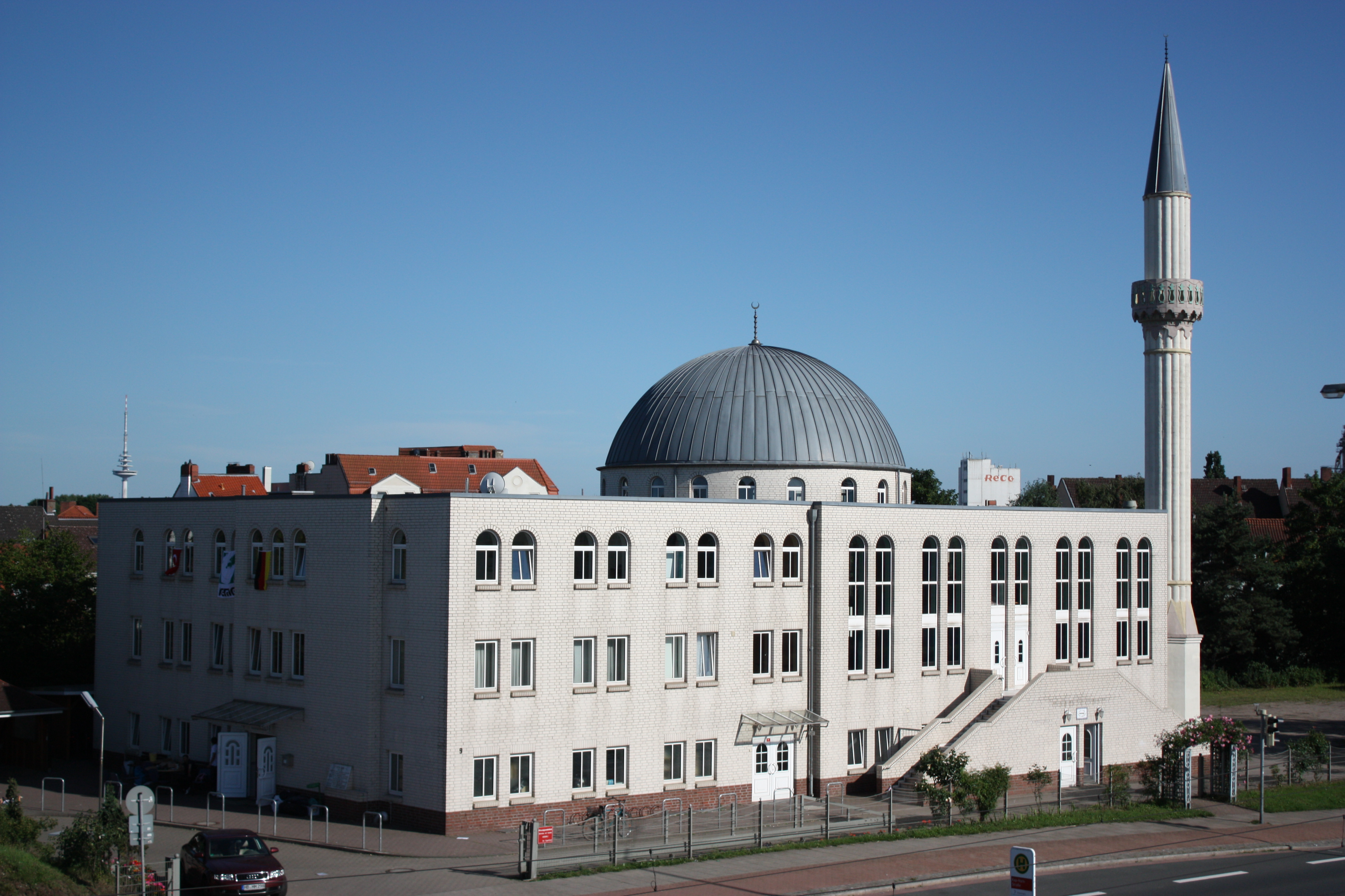 The Fatih Mosque, in Bremen-Gröpelingen, Germany.